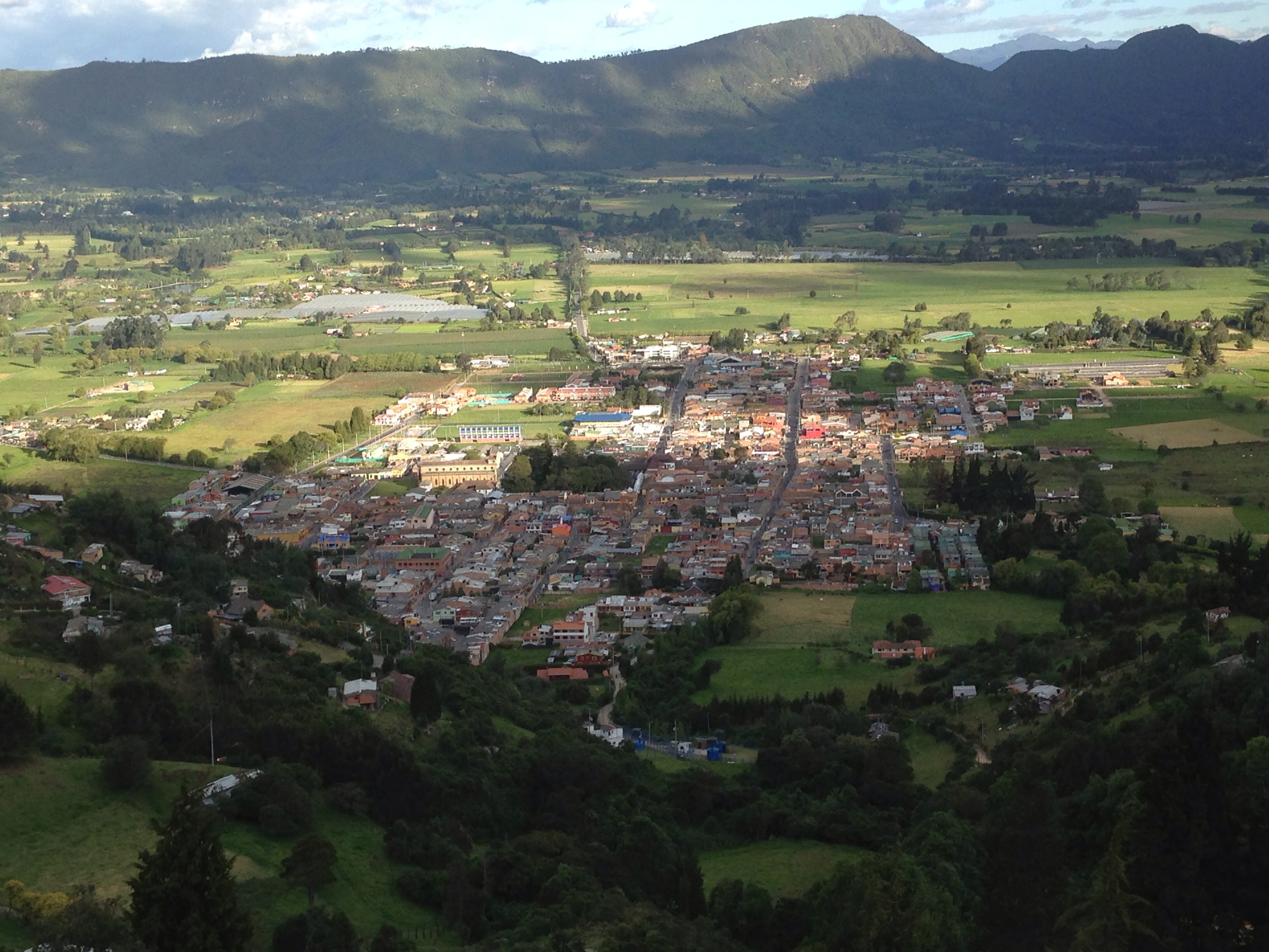 Overview of Tenjo, Cundinamarca, Colombia.